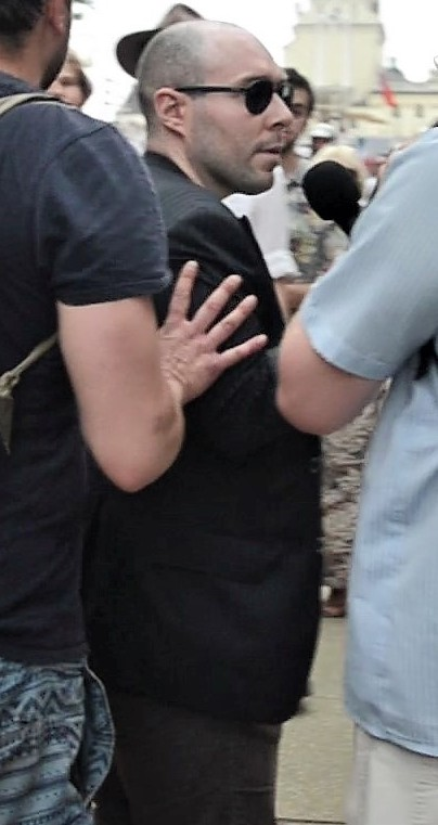 Marcin Rola